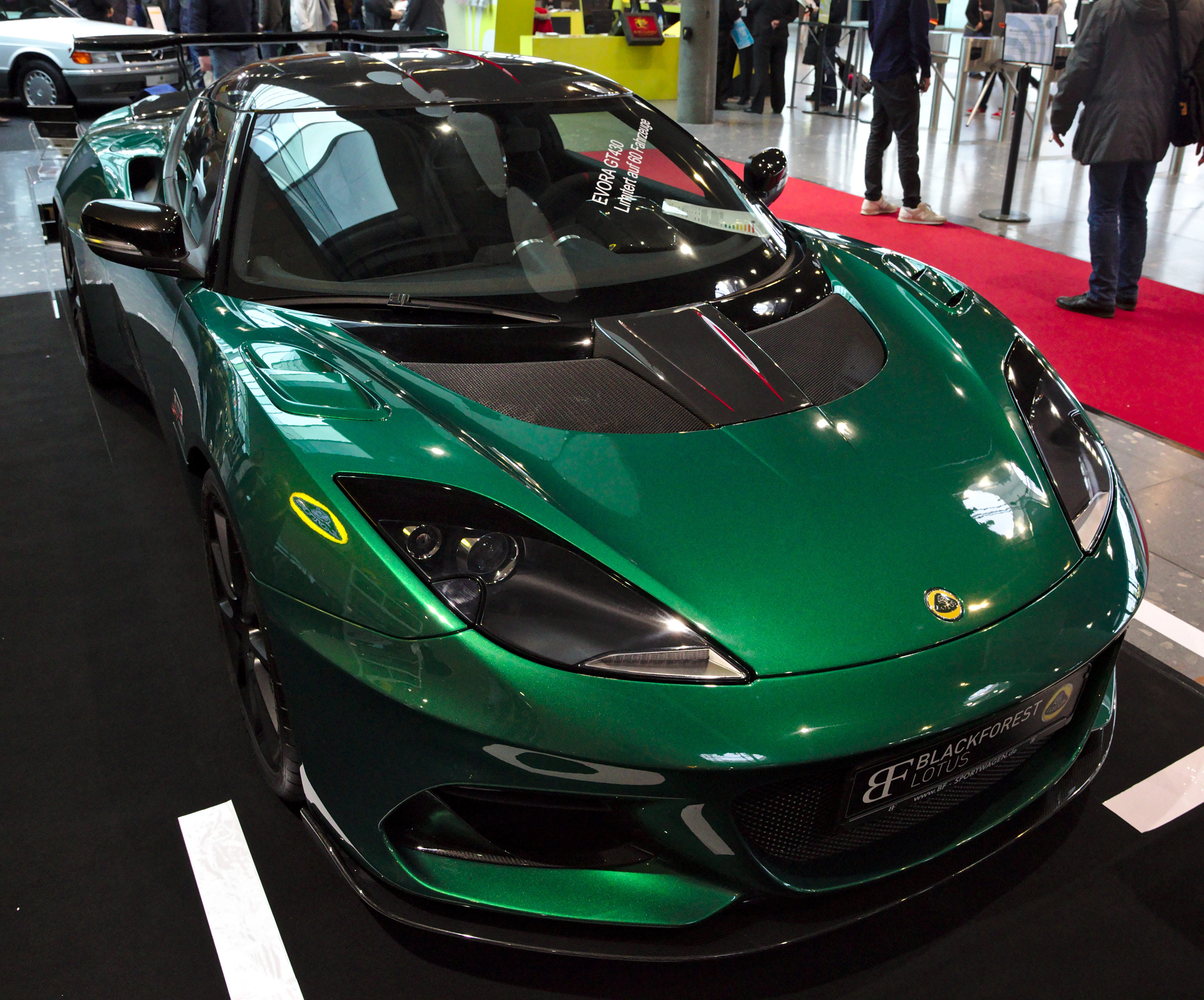 Lotus Evora GT430 at Retro Classics 2018